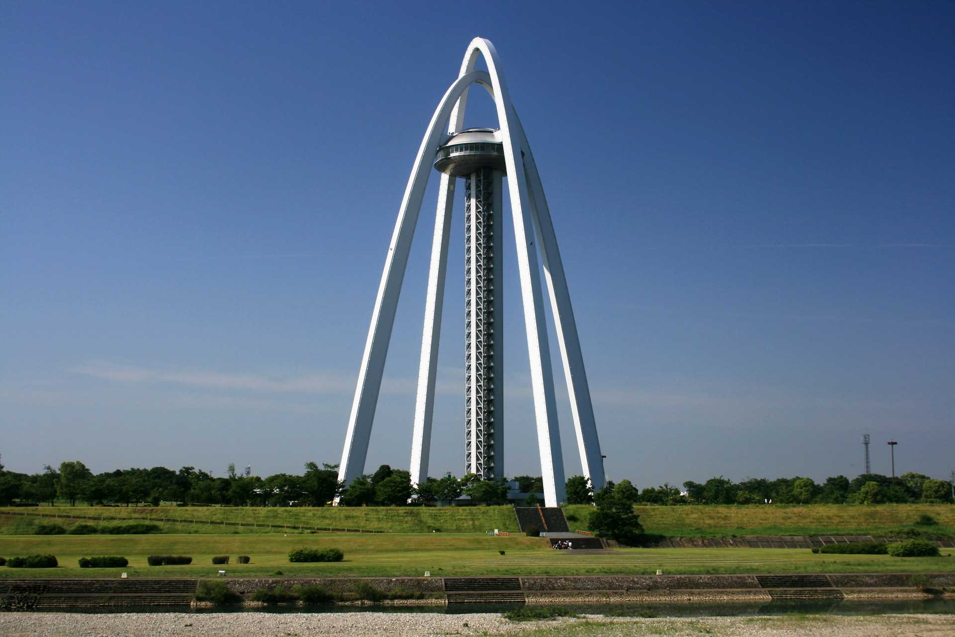 Twinarch138 from north